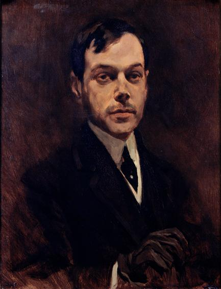 Afonso Lopes Vieira (1878-1946), a Portuguese poet.